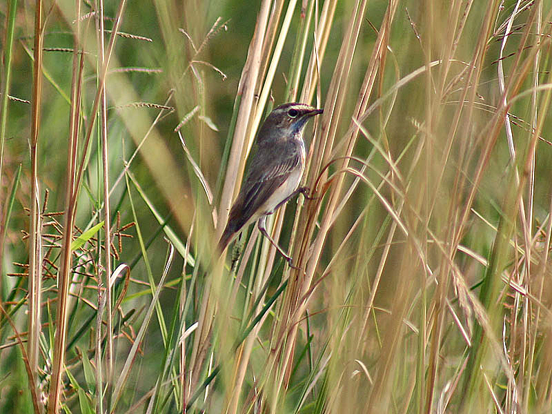 Bluethroat (Luscinia svecica) at Joka in Kolkata, West Bengal, India.